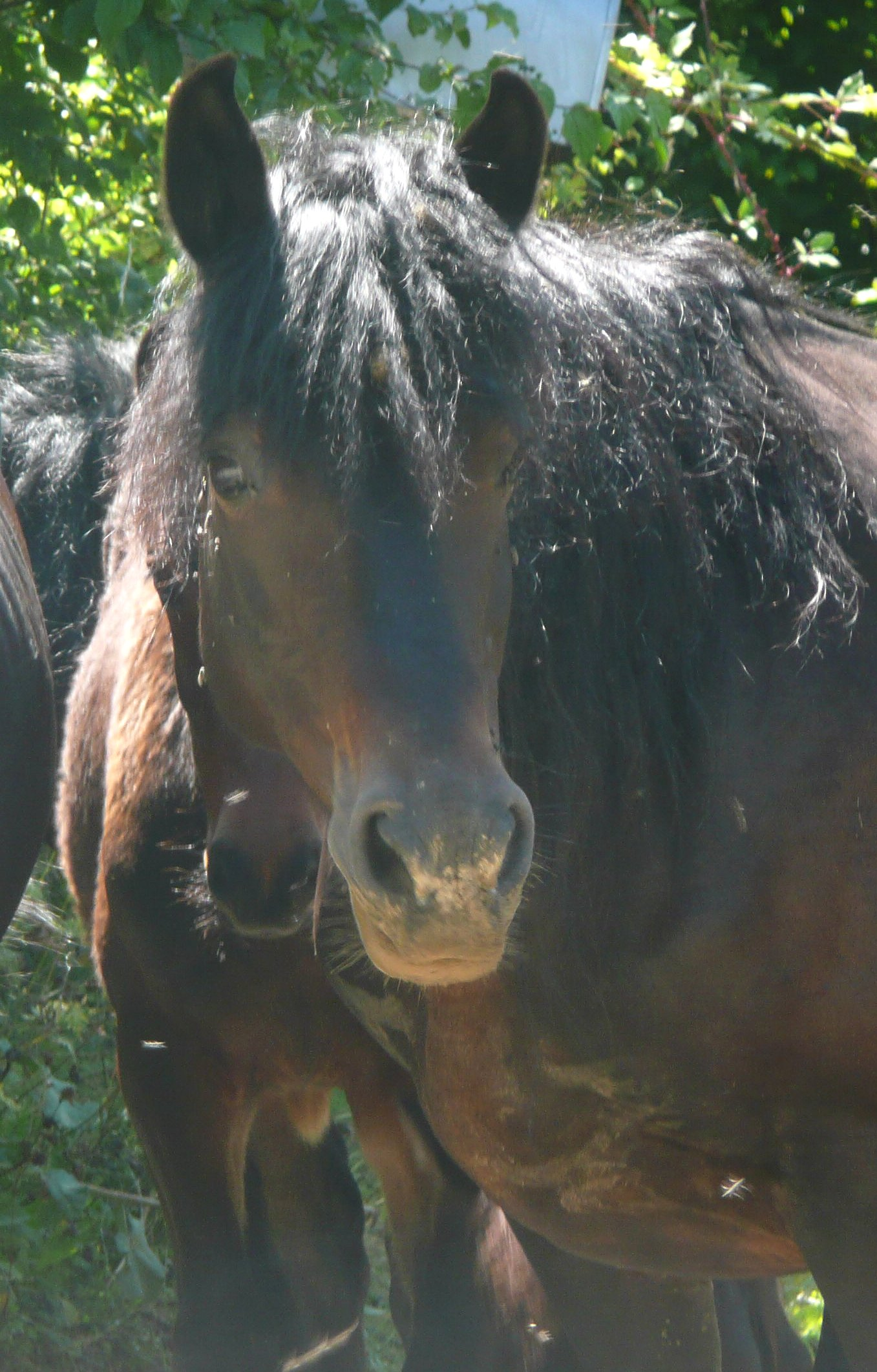 Bardigiano horse.